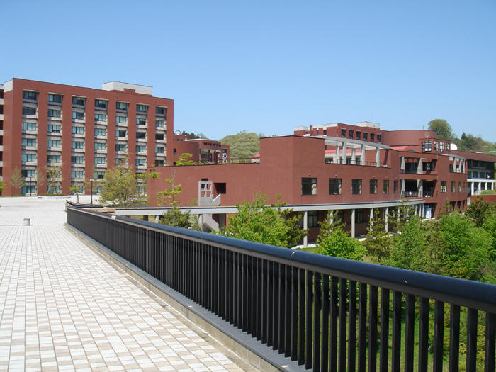 Kanazawa University - Kakuma Campus